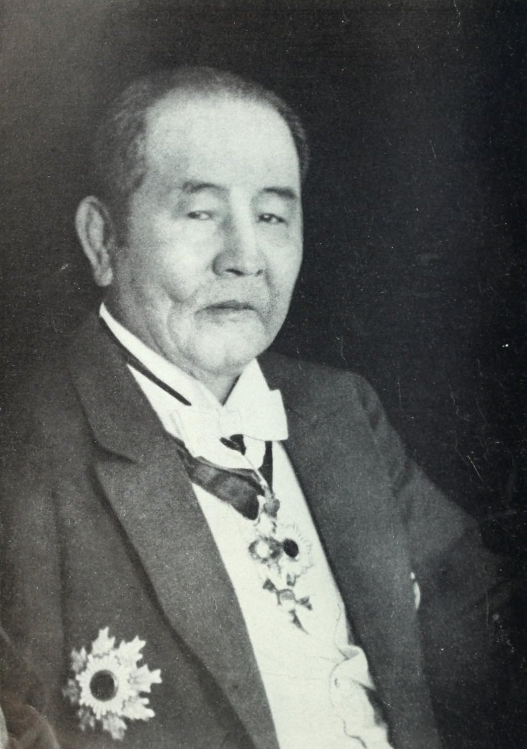 Picture of Shibusawa Eiichi